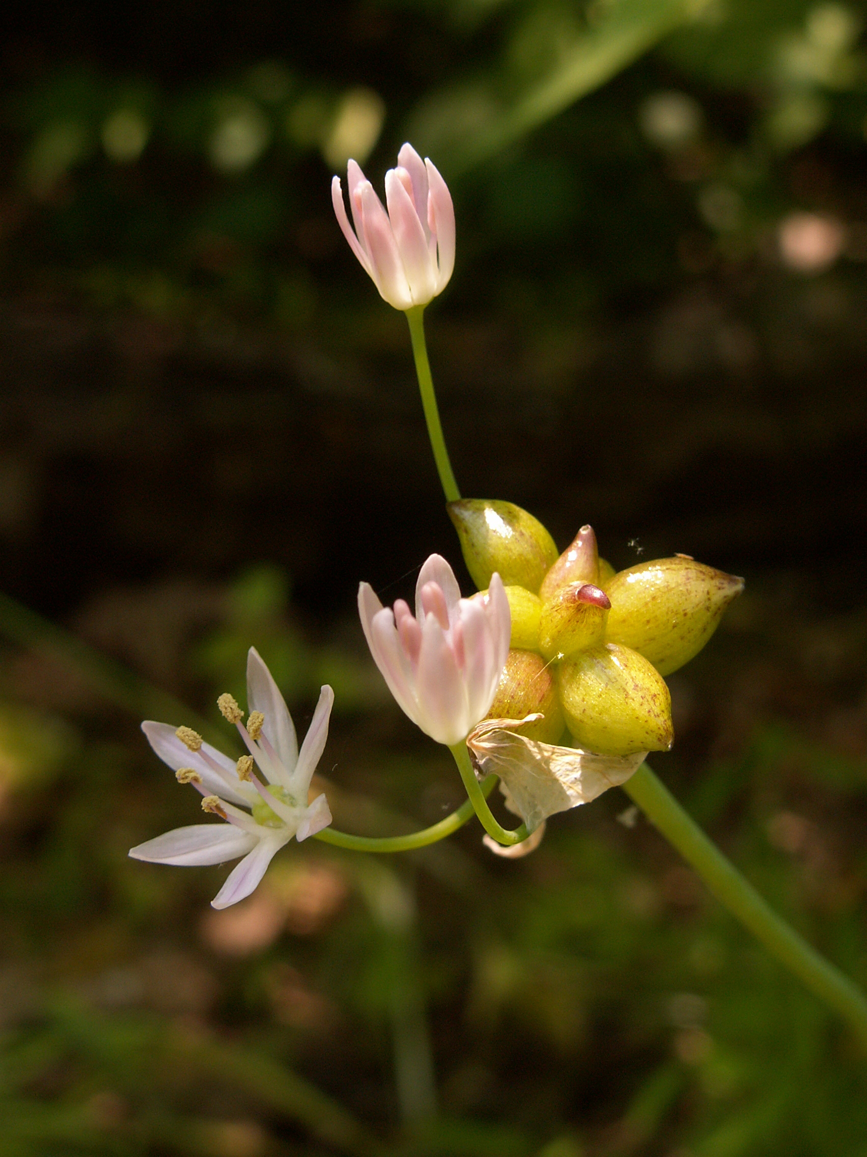 Canada Onion (Allium canadense) blooming in Fox Chapel, Pennsylvania